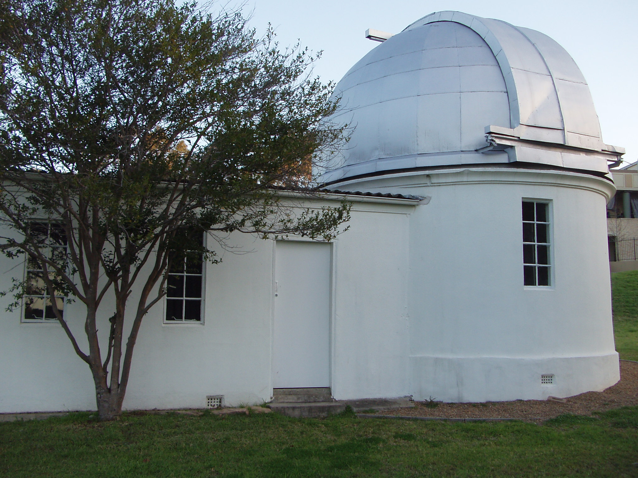 Observatory at St Ignatius' College, Riverview, Sydney, Australia, from North.